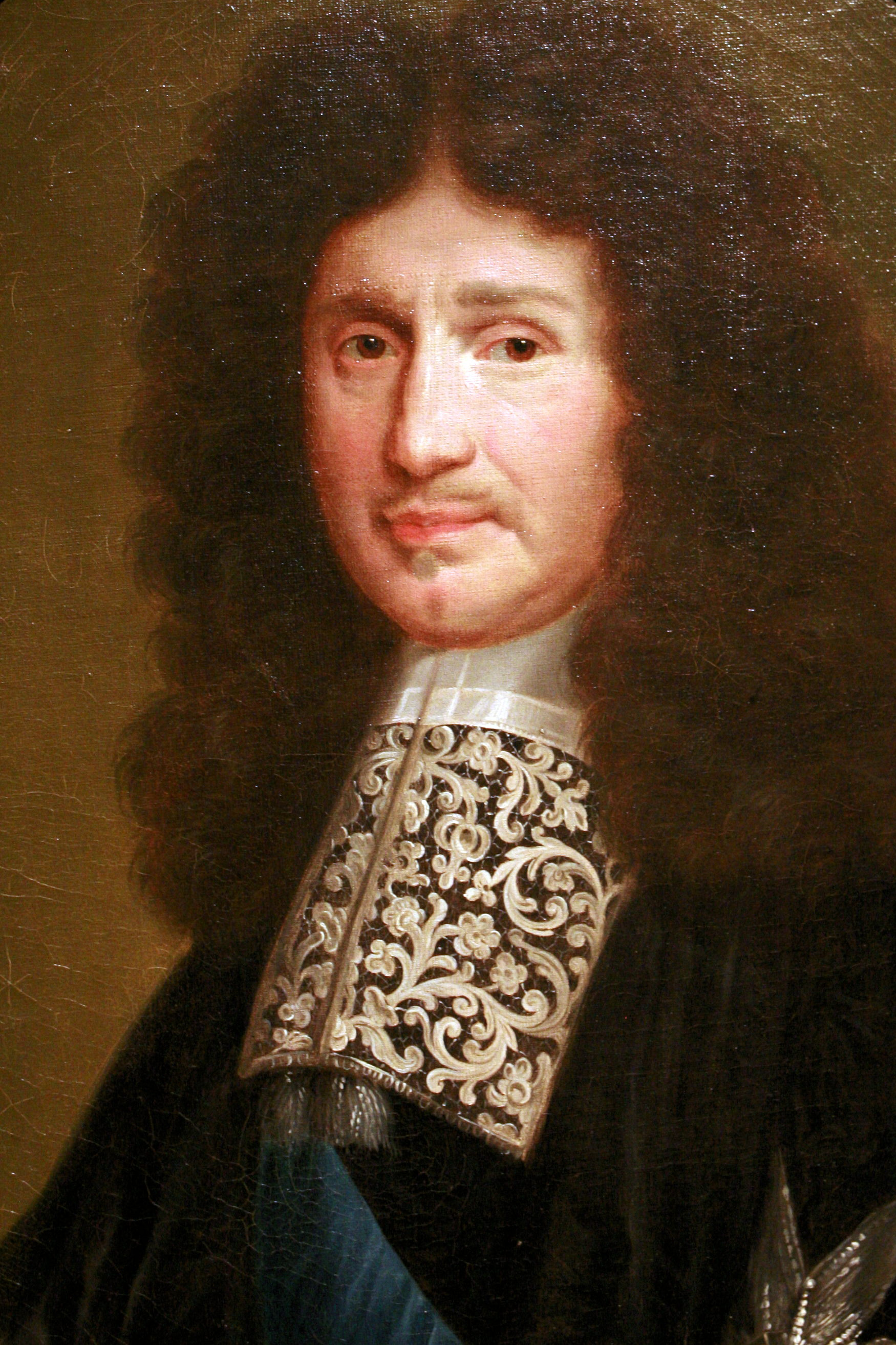 Portrait of Colbert. 18th century painting made after an engraving by Robert Nateuil published in 1676 On display at the Musée de la Compagnie des Indes in Port-Louis, accession number 3521